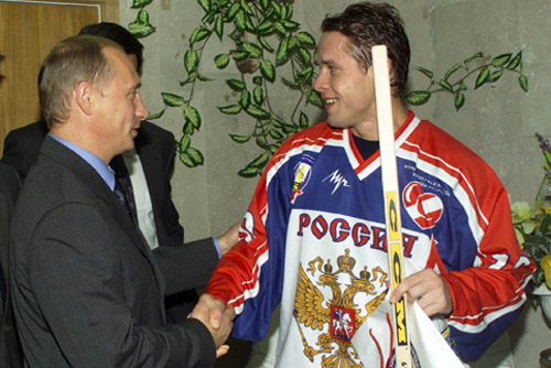 THE SOKOLNIKI SPORTS PALACE, MOSCOW. President Vladimir Putin with Russian ice hockey team captain Pavel Bure at the Russian-Czech Spartak Cup match.